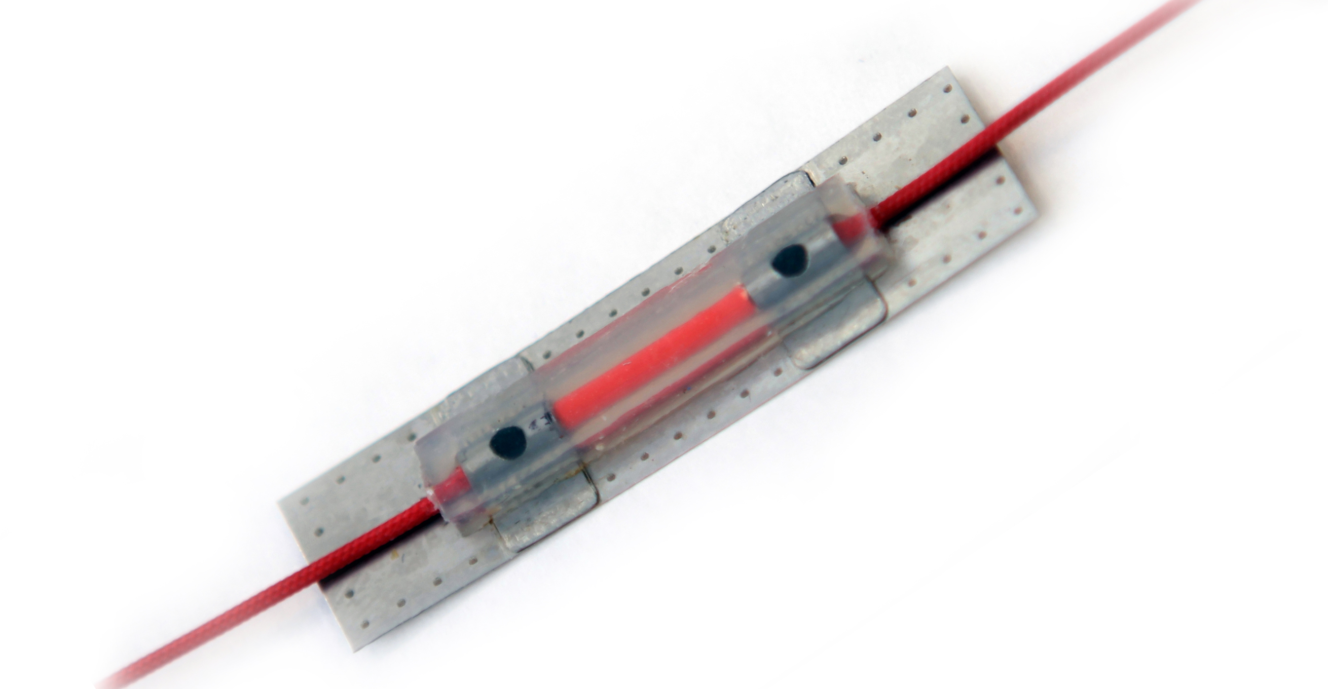 based on FBG technology